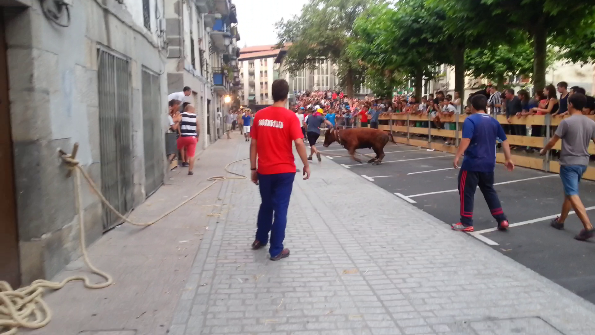 Sokamuturra in Azpeitia in the 2013 Saint Ignatius festivities